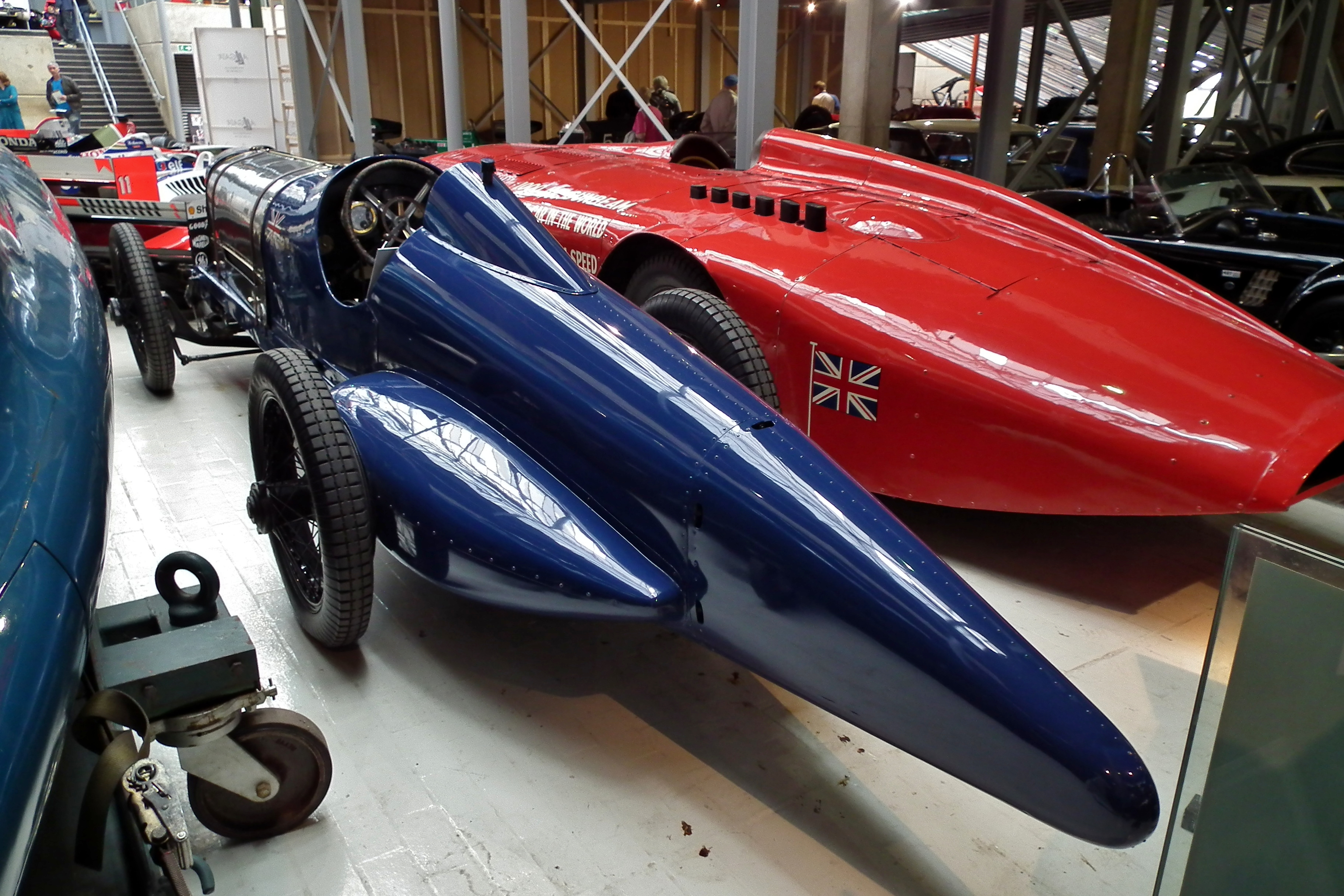 Sunbeam 350hp land speed record car. In 1922, Kenelm Lee Guinness set the land speed record of 129.171 mph (207.88 km/h) driving this car. It was then sold to Malcolm Campbell, who renamed it Blue Bird, and broke the record twice driving it. In 1924 Campbell acheived a speed of 146.16 mph (235.226 km/h)and in 1925 set the mark at 150.766 mph (242.635 km/h). Taken at the National Motor Museum in Beaulieu, Hampshire, England.